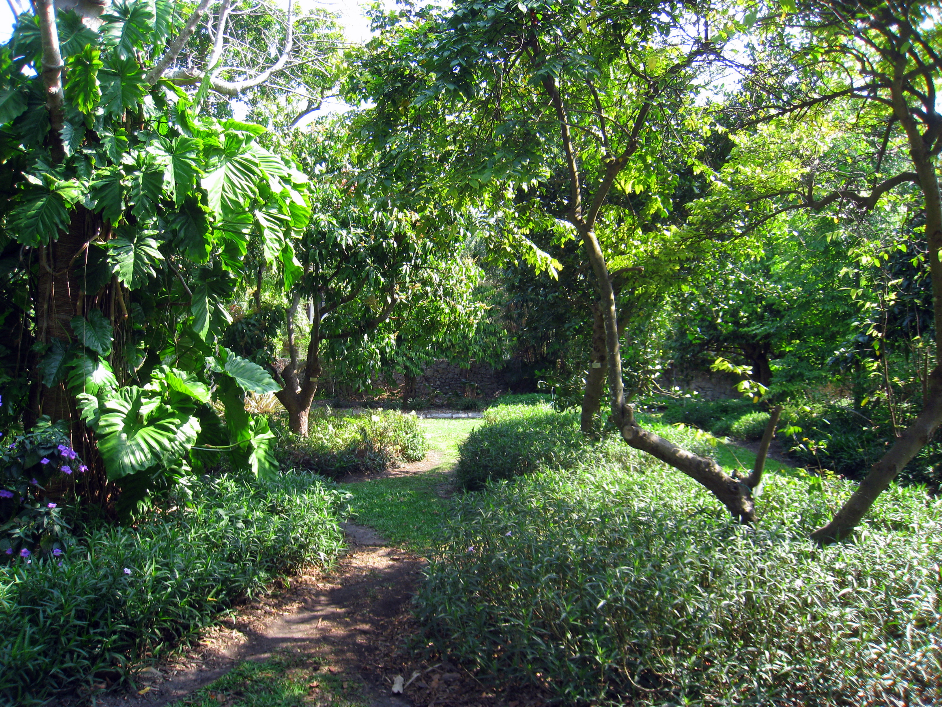 The Kampong, Coconut Grove, Florida, USA. General view.